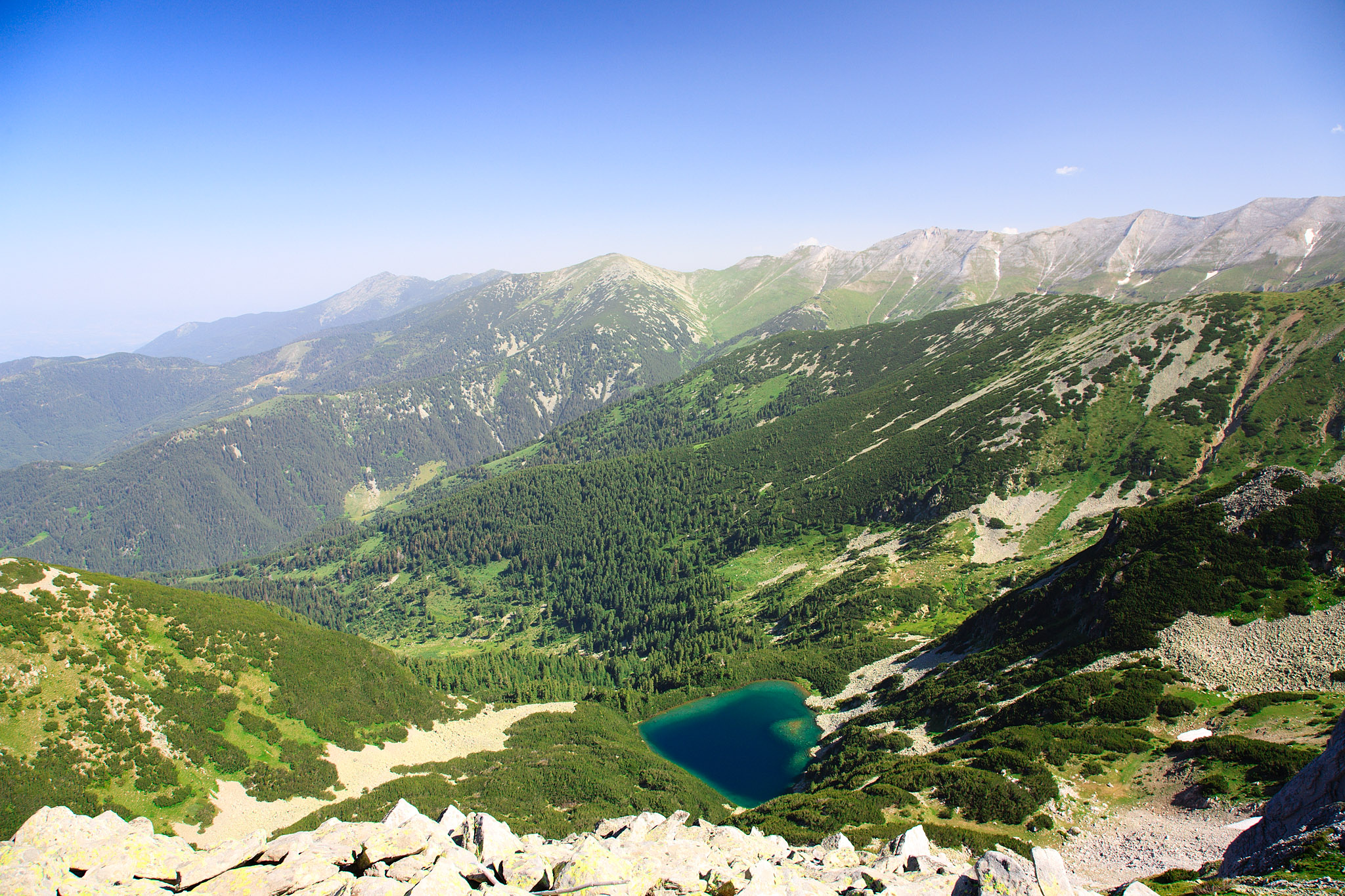 One of the Gergiiski lakes in Pirin mountain, Bulgaria